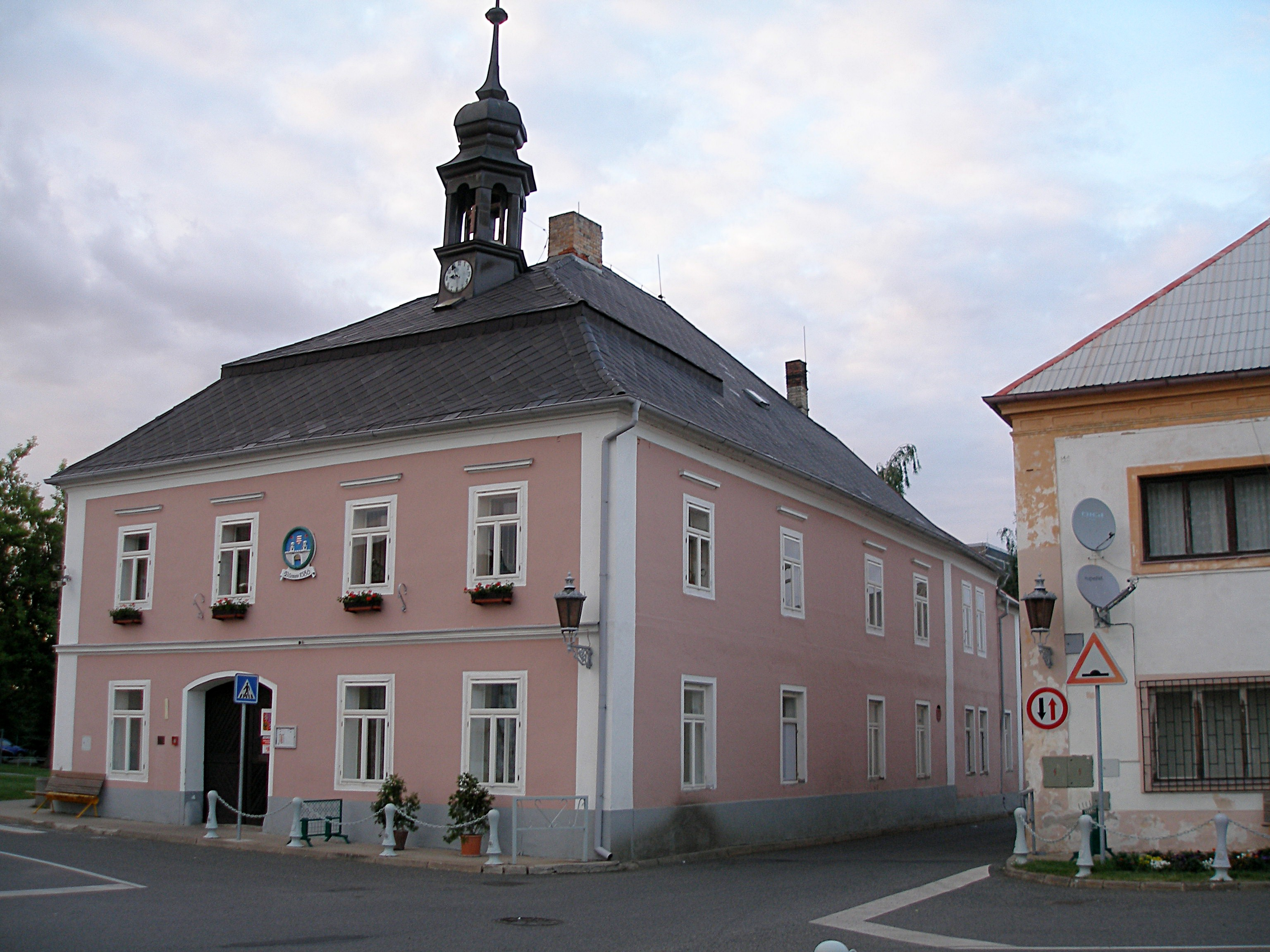 Vilémov (Chomutov District) - the city hall